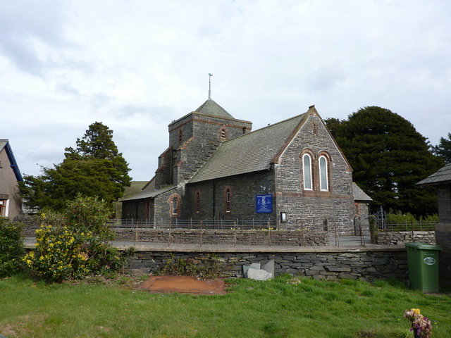 Photograph of St Luke's Church, Torver, Cumbria, England